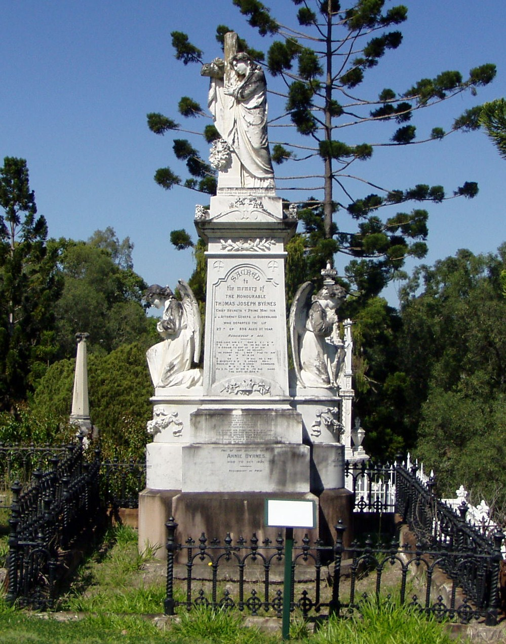 Gravesite of Thomas Joseph Byrnes at Toowong Cemetery in Brisbane